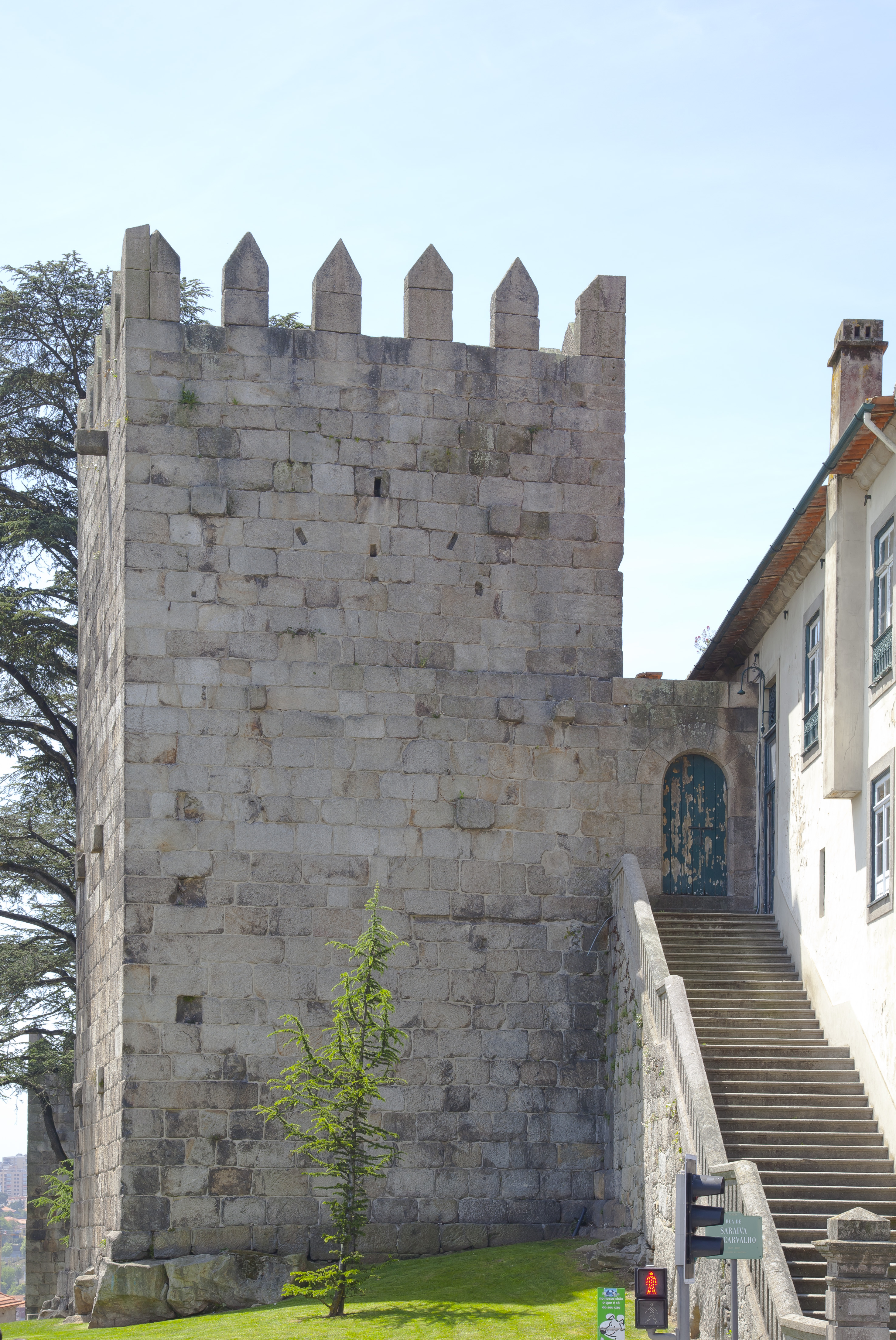 Fernandina Wall, Porto, Portugal